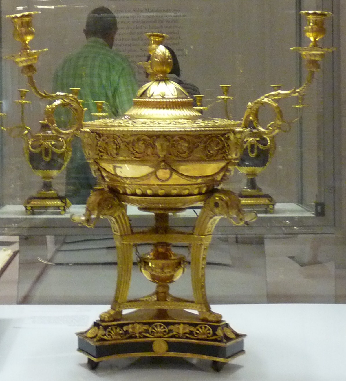 Ormolu tea urn by Boulton & Fothergill, early 1770s